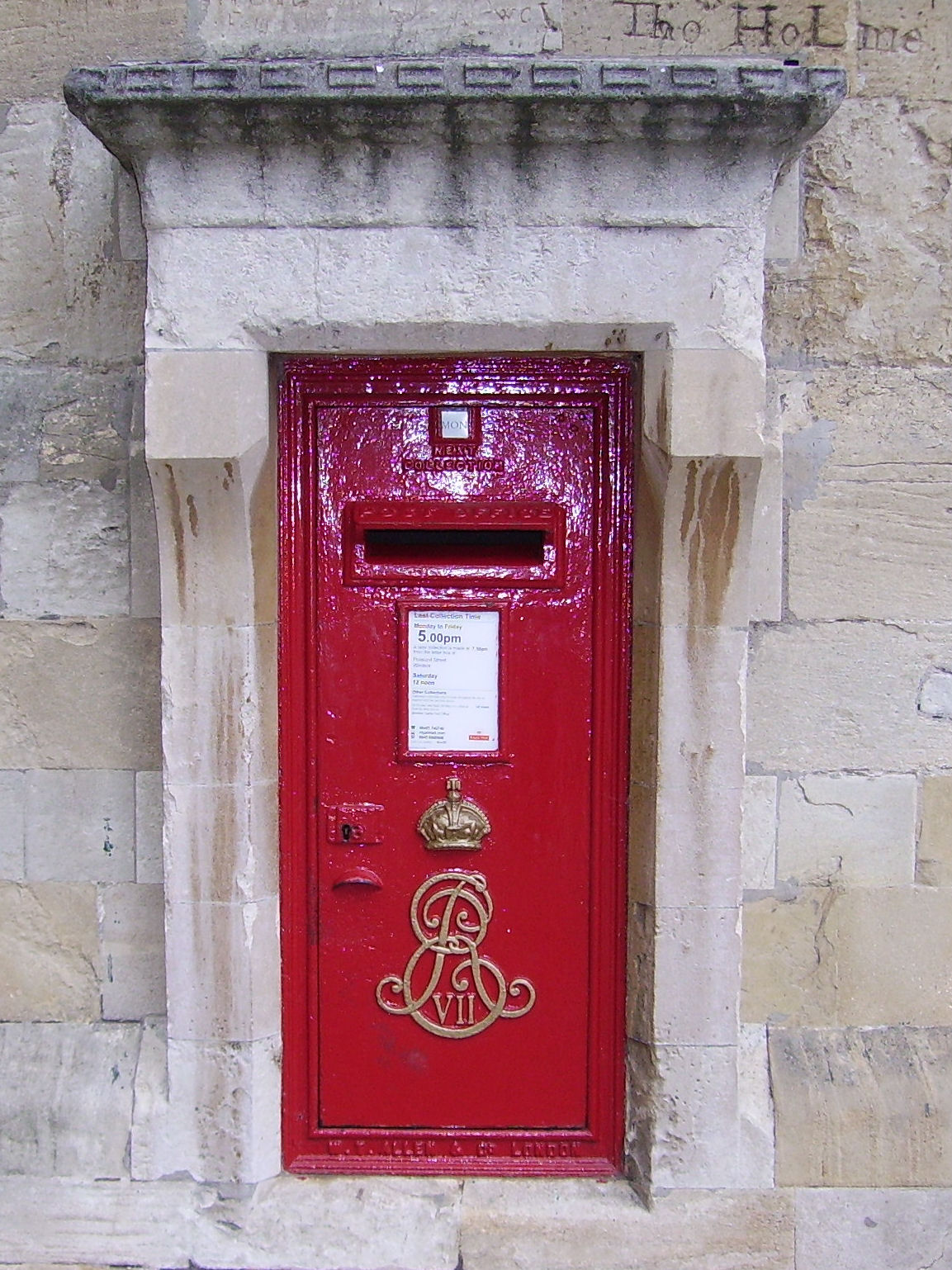 Windsor Castle in Windsor, England